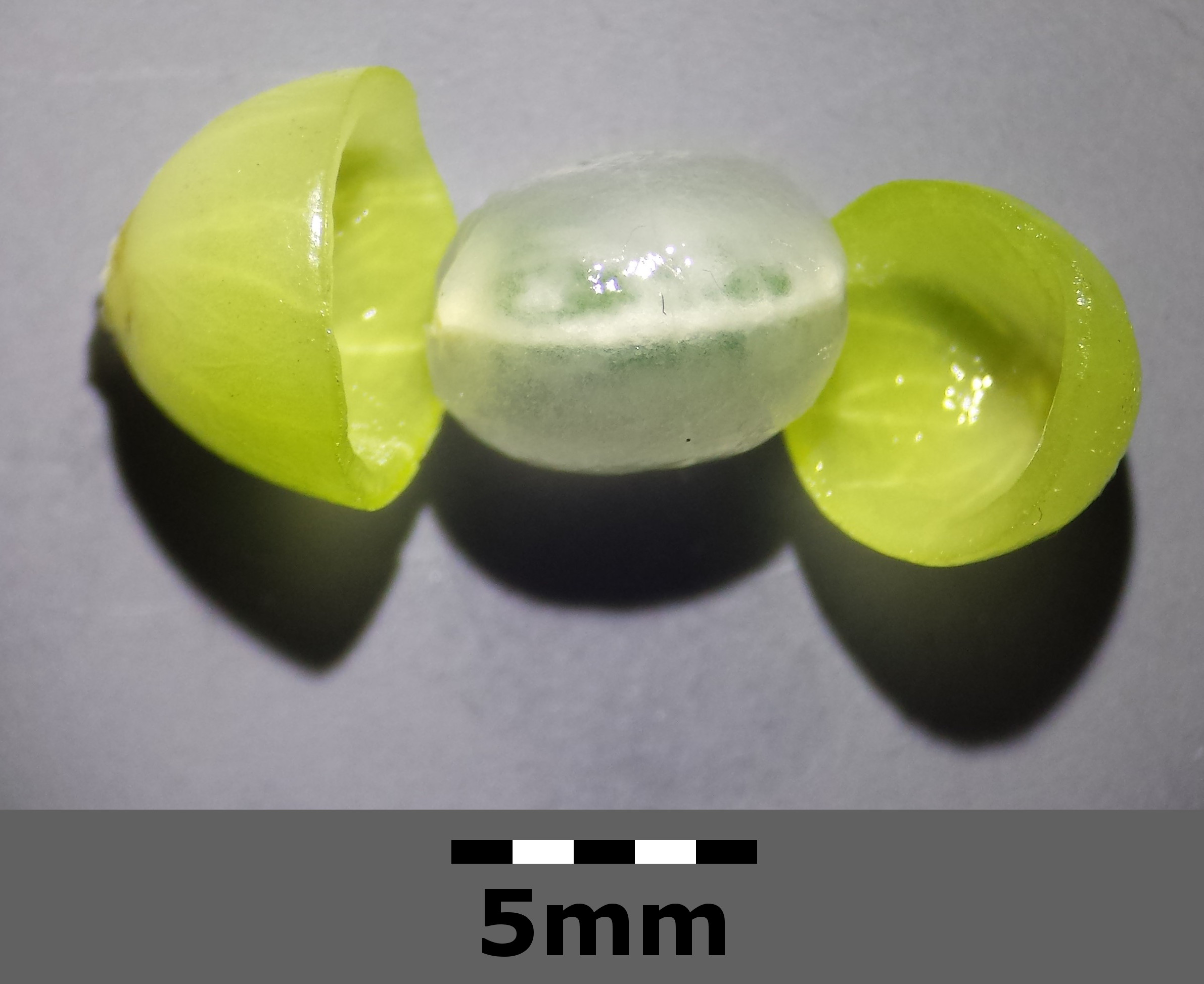 Sliced fruit Taxon: Viscum laxum subsp. laxum (sensu Fischer et al. EfÖLS 2008; det. M. A. Fischer 2014-11-08) Location: Bierhäuslberg near Perchtoldsdorf, district Mödling, Lower Austria - ca. 400 m a.s.l. Habitat: Pinus nigra